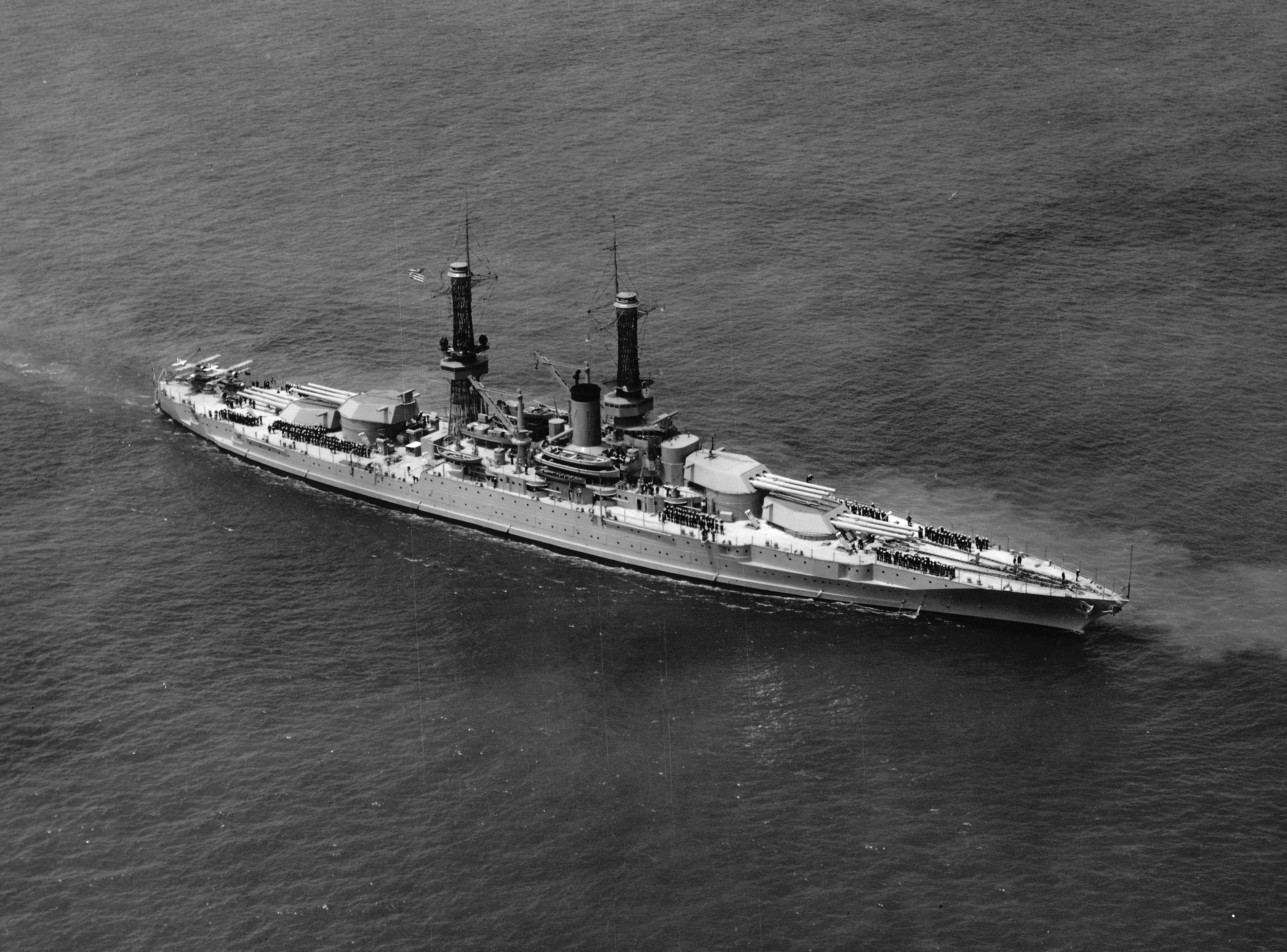 The U.S. Navy battleship USS Idaho (BB-42) during a presidential naval review in Hampton Roads, Virginia (USA), 4 June 1927.